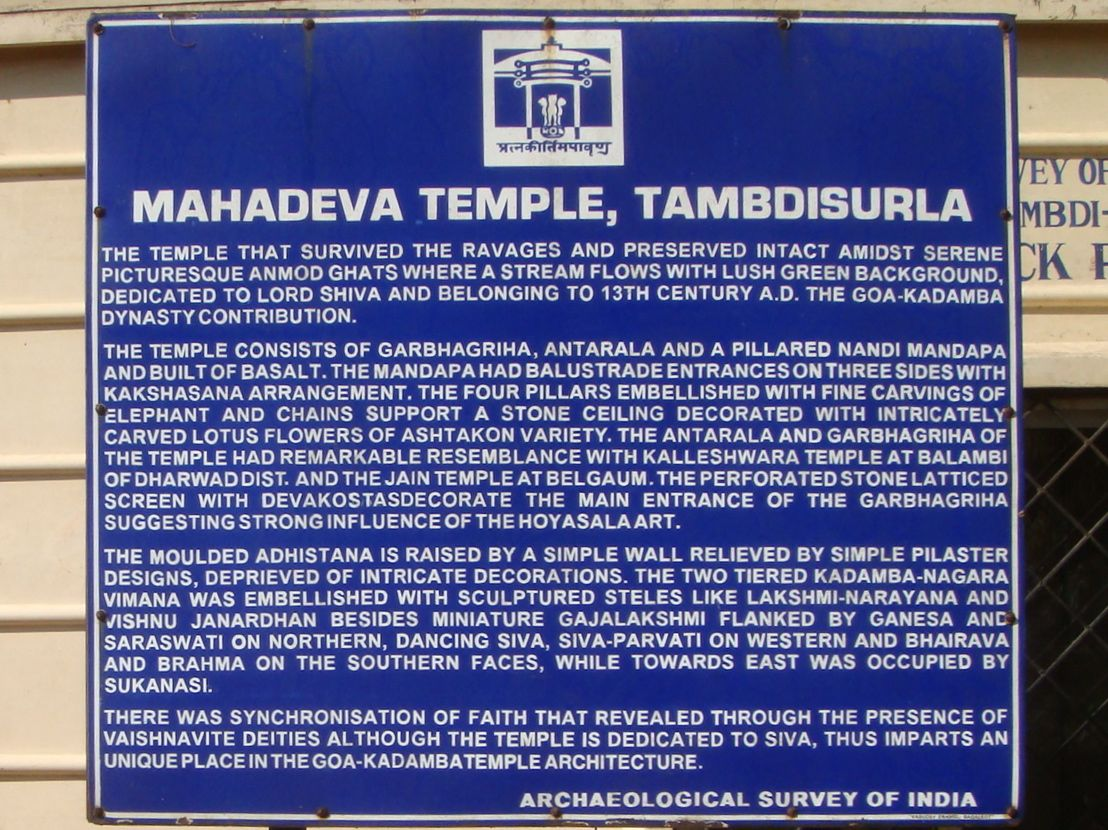 Mollem National Park, Tambdi Surla Temple, sign